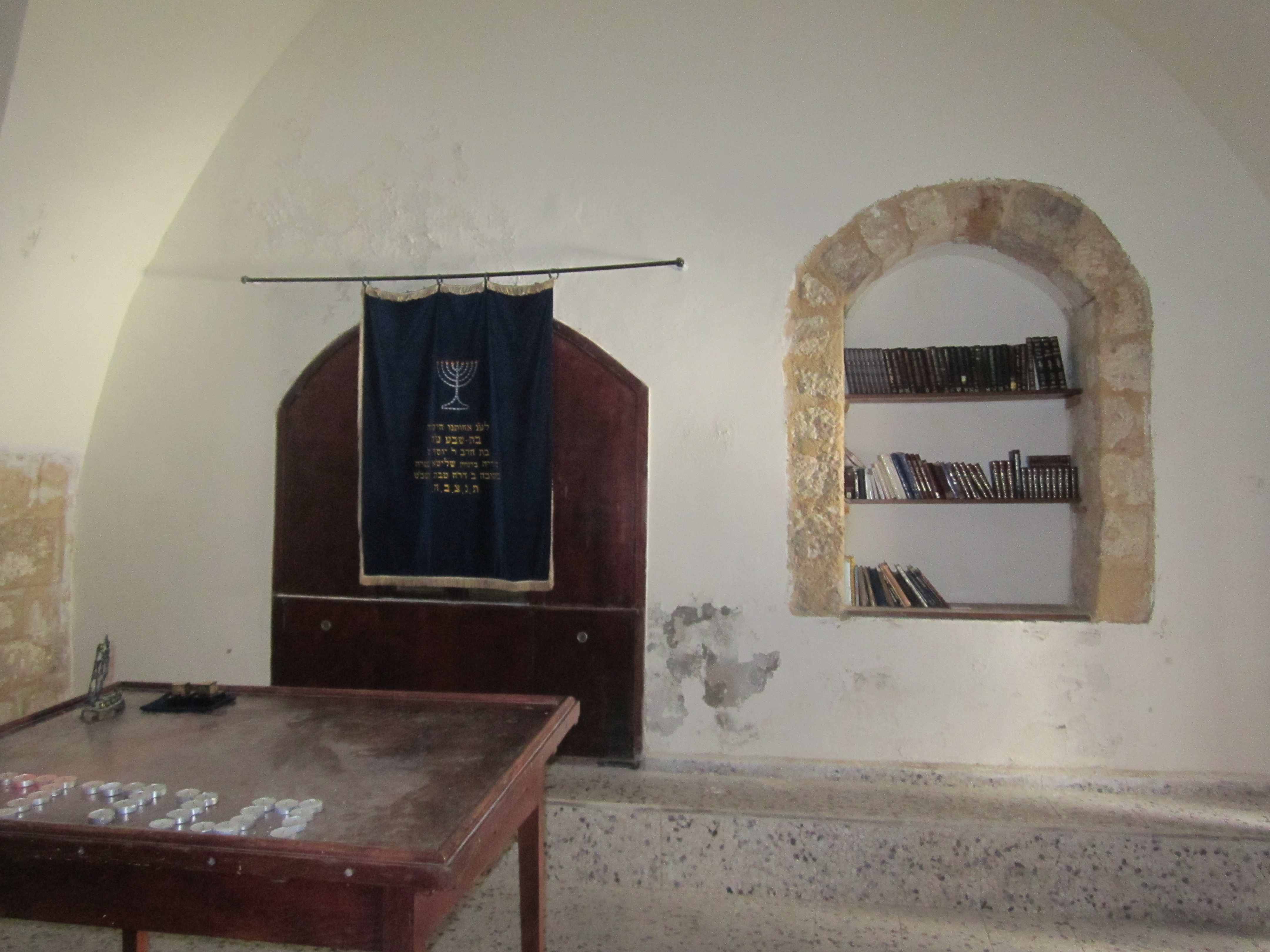 inside of ancient synagogue in Shfaram